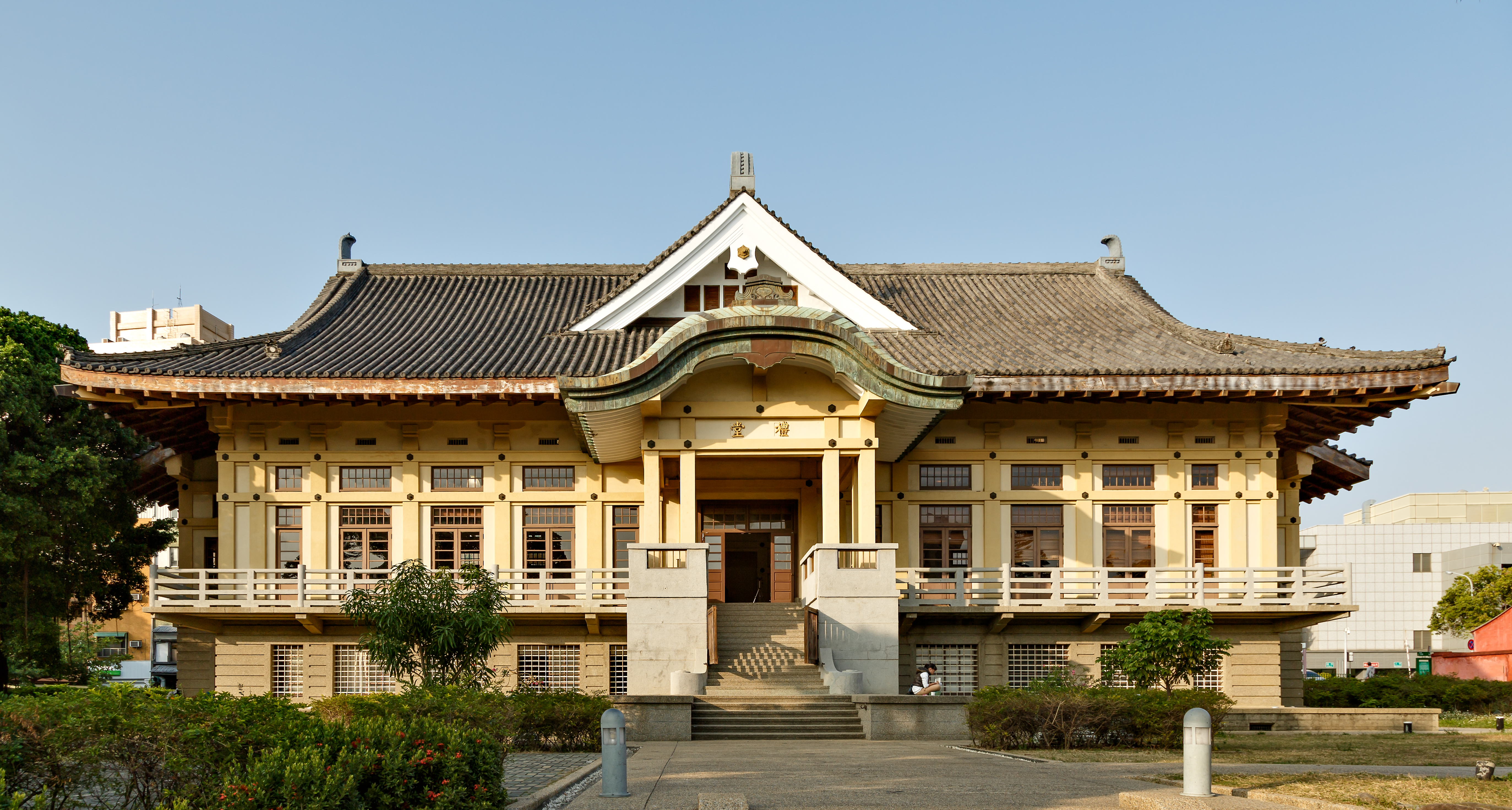 Tainan, Taiwan: Butokuden Tainan - the historic Martial Art Hall from 1936